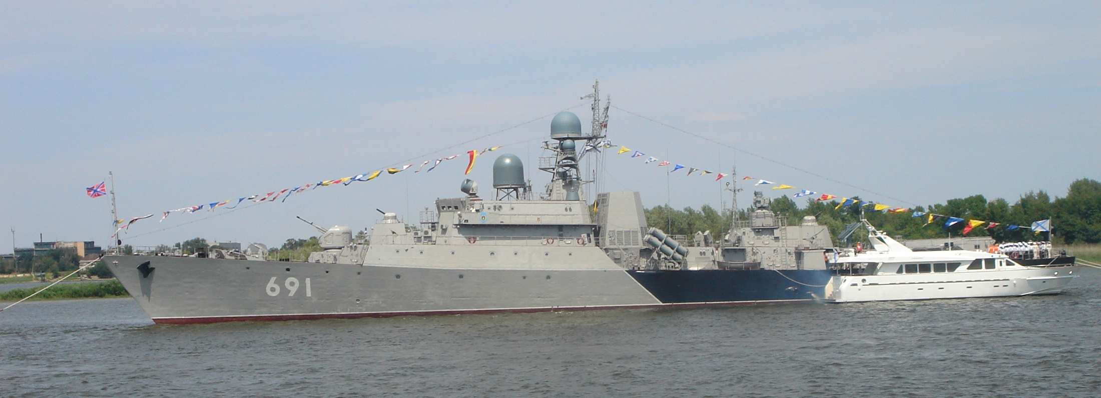 Gepard class frigate from Caspian Flotilla